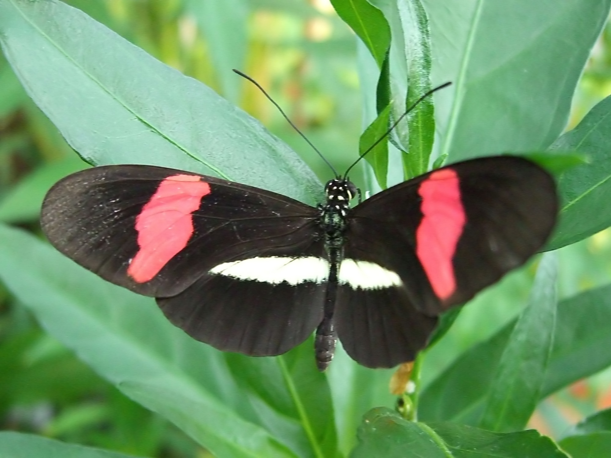 Description: Heliconius erato